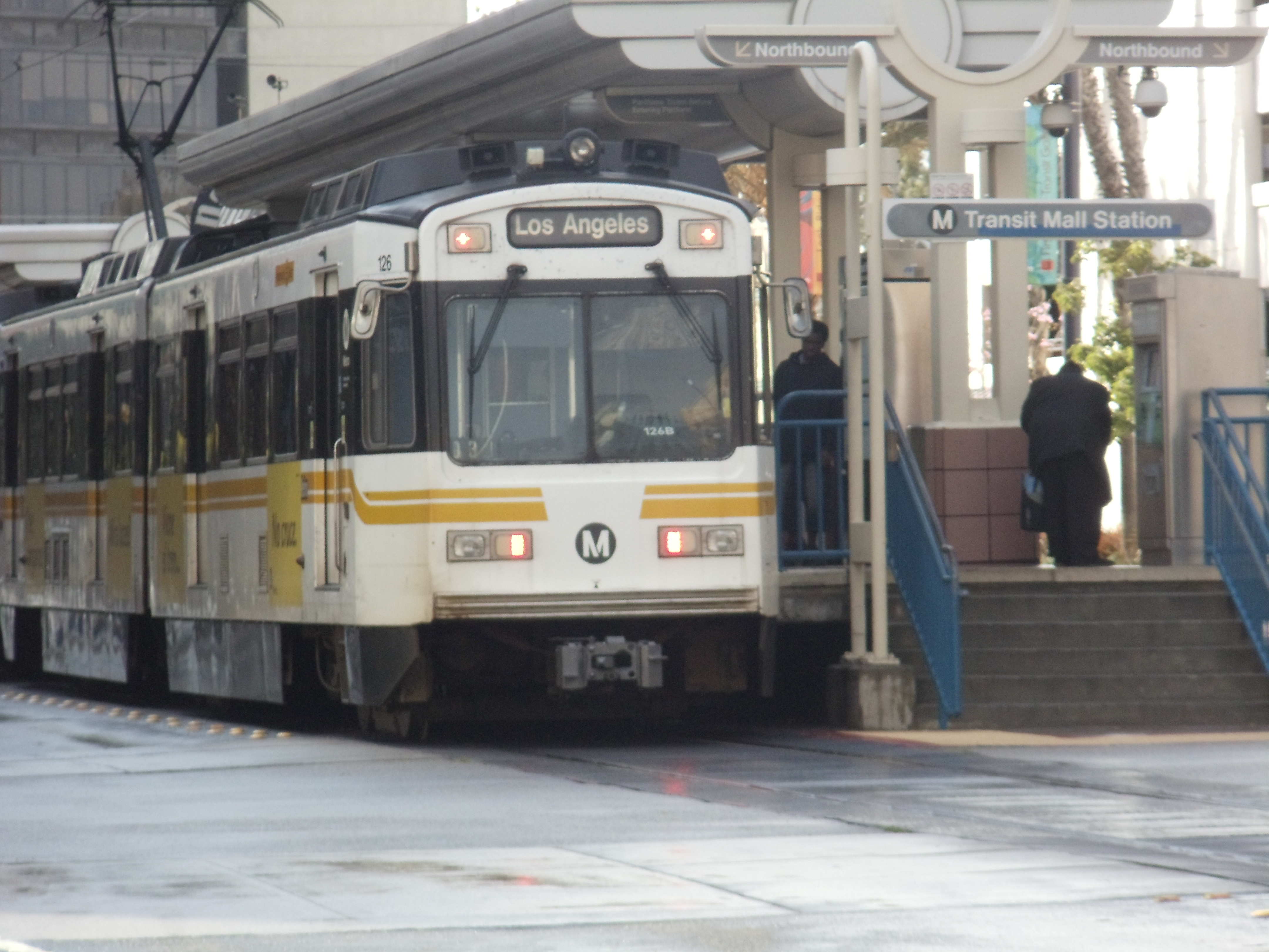 Metro Blue Line train stationed at Long Beach Civic Center Station.